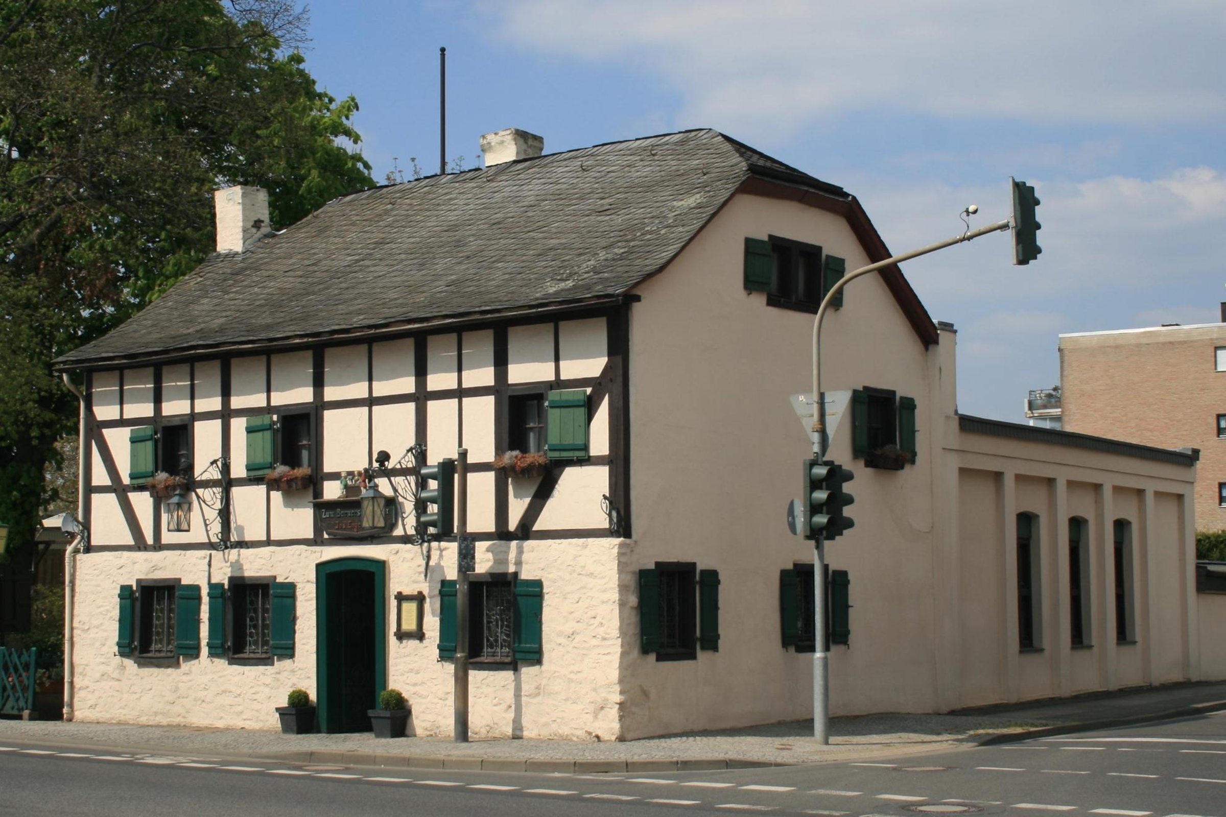 Cultural heritage monument No. 6/003 in Düren